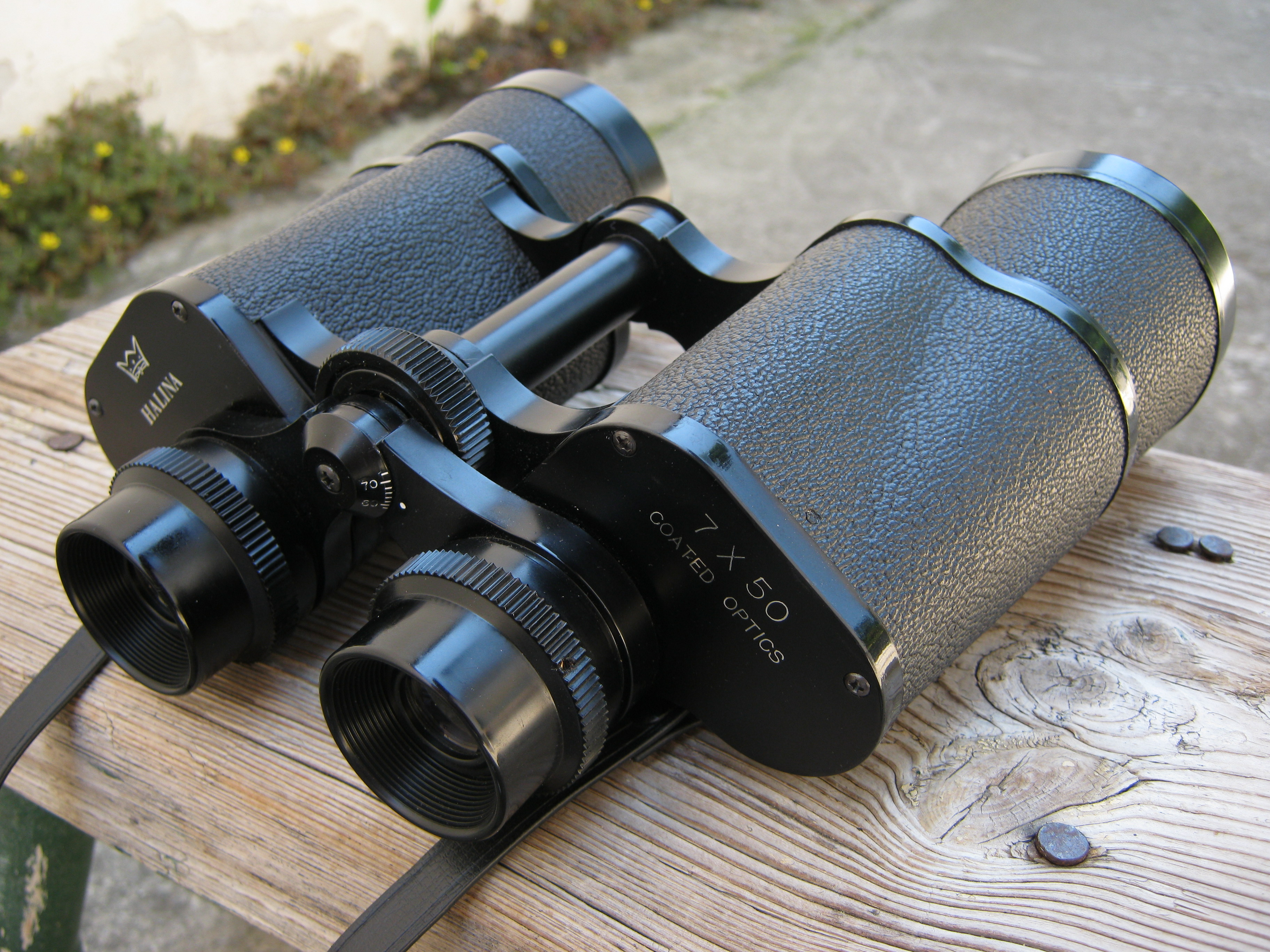 These binoculars are several decades old, but they are still in perfect condition.